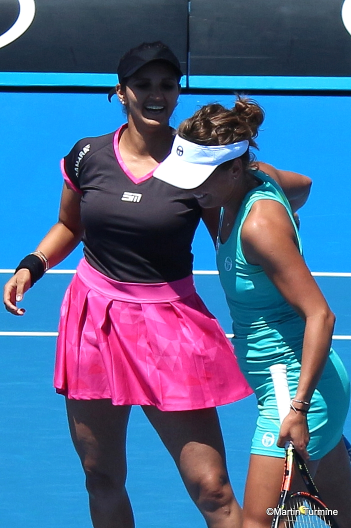 Sania Mirza (left) and Barbora Strýcová at the Australian_Open_2017